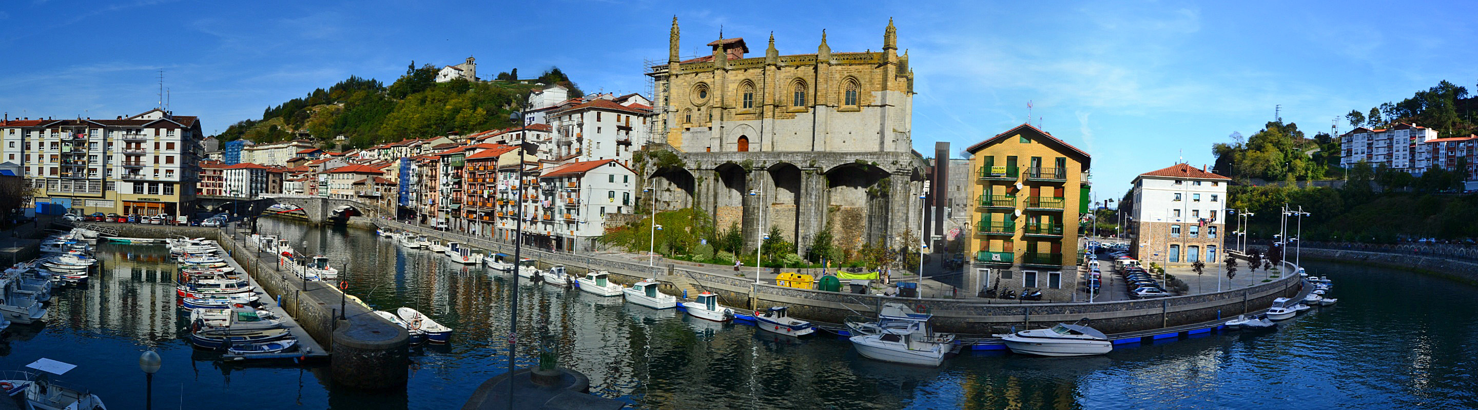 Ondarroa. Bizkaia, Basque Country.